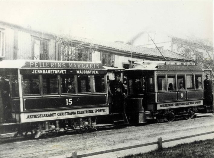 Kristiania Elektriske Sporvei Class A tram 9 and trailer 15.